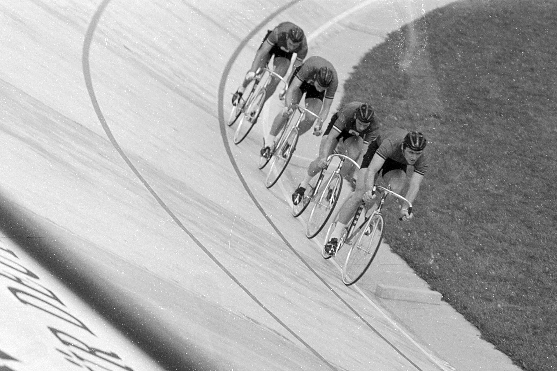 The England (GB) team racing in the amateur team pursuit at the Waldstadion, Frankfurt, West Germany in 1966.